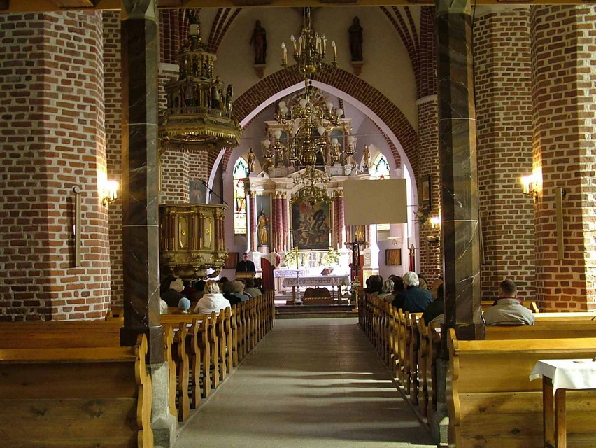 from Polish wikipedia by [1]